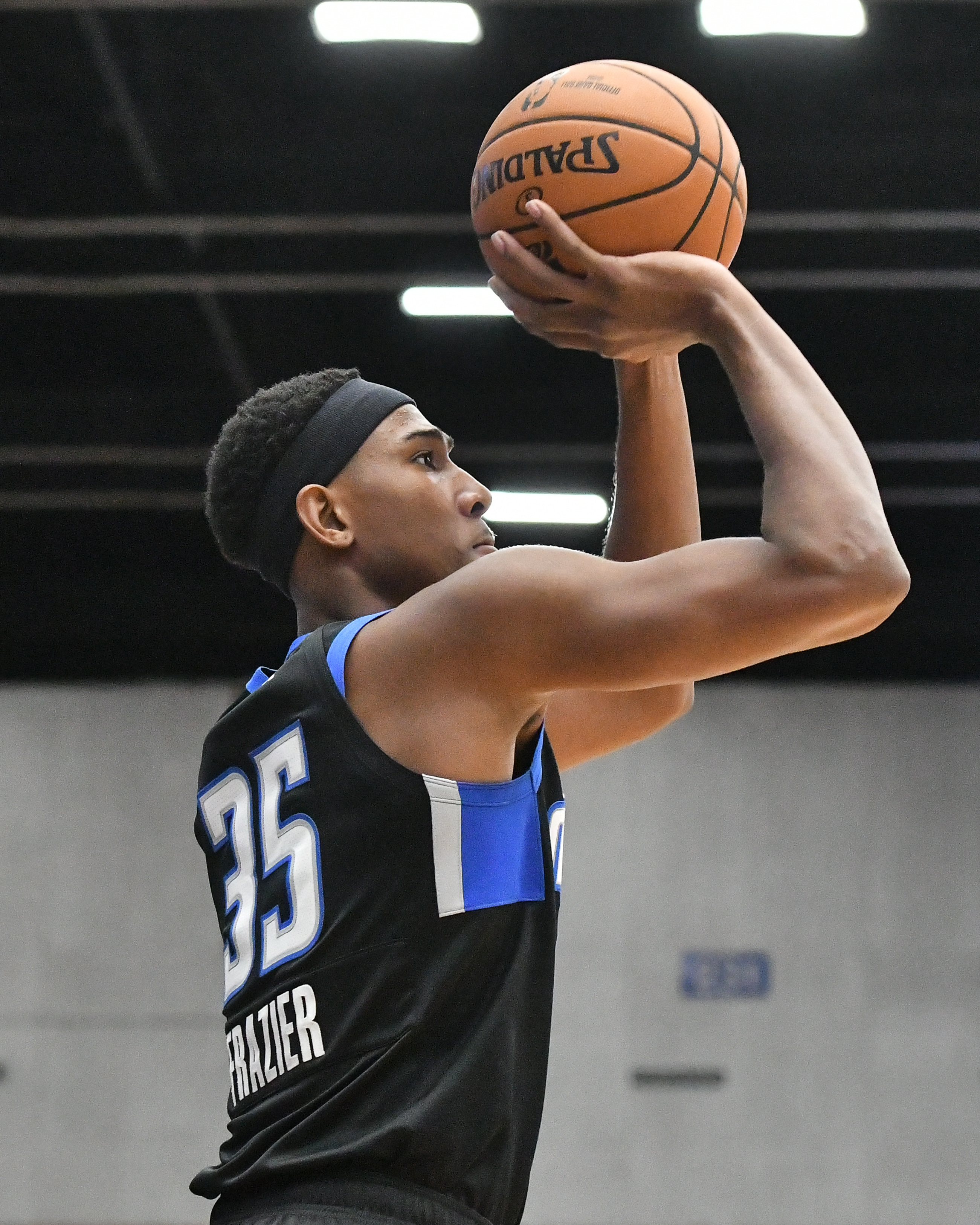 Melvin Frazier. Lakeland Magic vs Iowa Wolves. RP Funding Center. Lakeland, Fla. Jan. 18, 2020. (Photo by Tom Hagerty.)